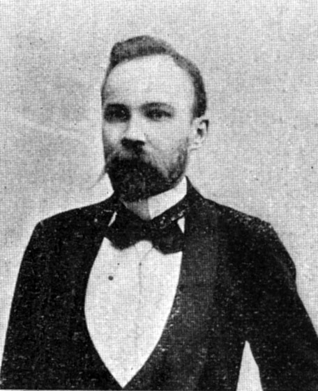 Rihards Zariņš, before 1902, anonymous photographer. Published in Wilhelm Neumann, Baltische Maler und Bildhauer des XIX. Jahrhundert. Grosset, Riga 1902. p172